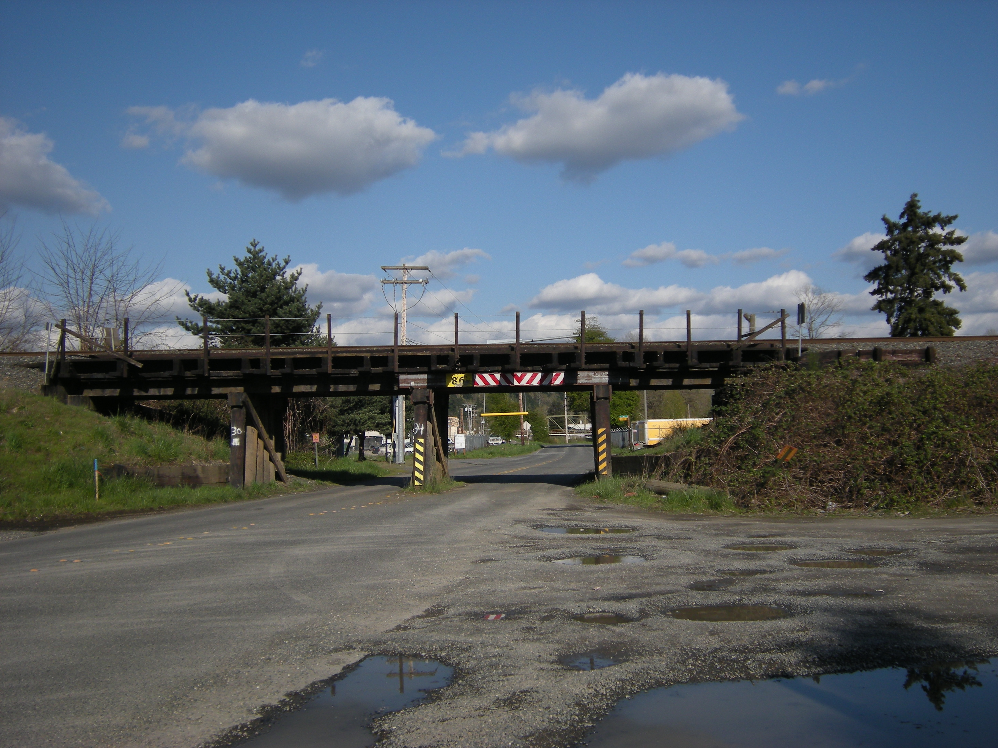 Rail bridge over S. 259th St., Kent, Washington, right by the junction of the Green River Trail and the Interurban Trail (South). There is a break in the Green River Trail as such here, but the official route continues on S. 259th St. under this bridge.